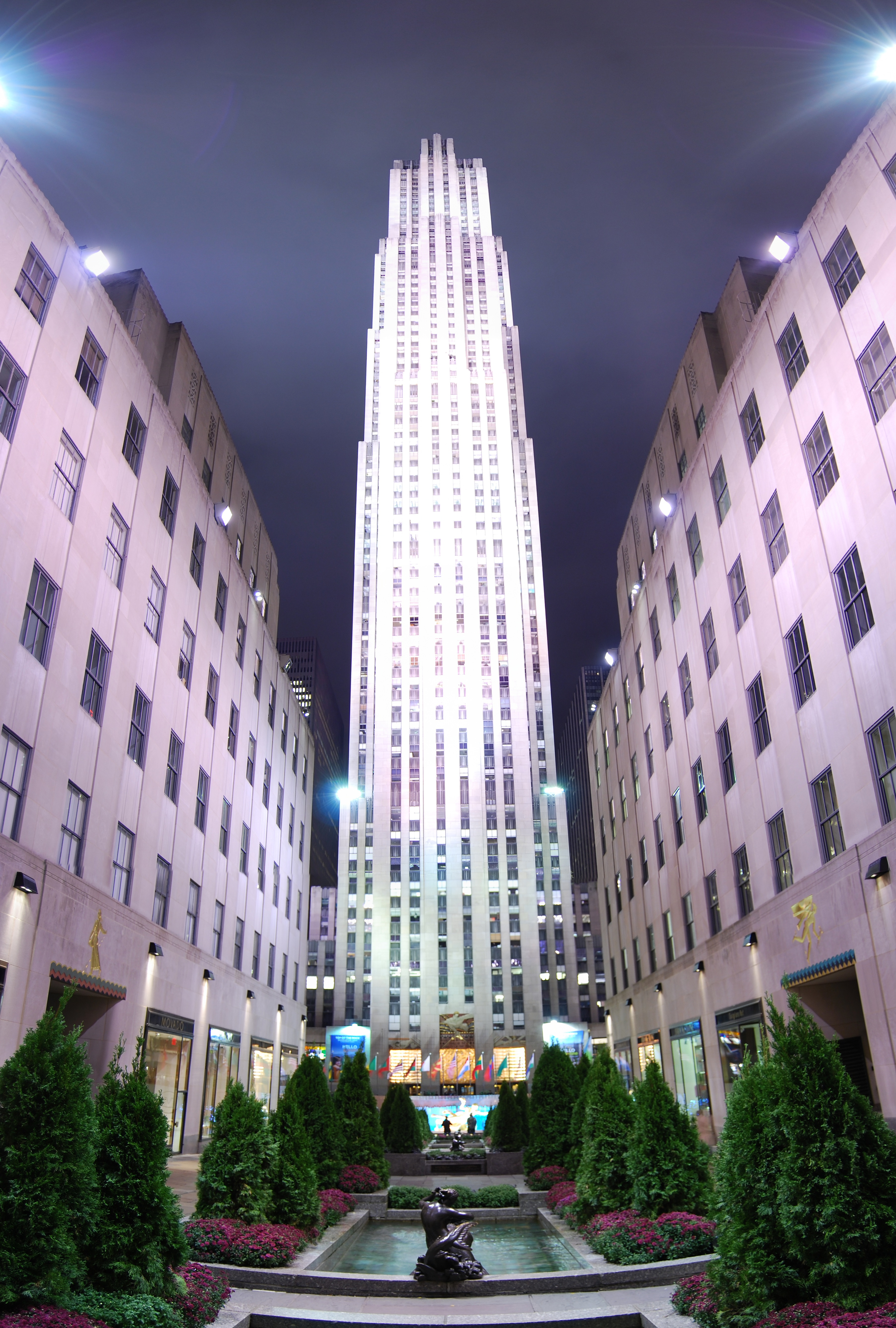 Nighttime panorama of Rockefeller Center in Midtown Manhattan, New York, New York, United States